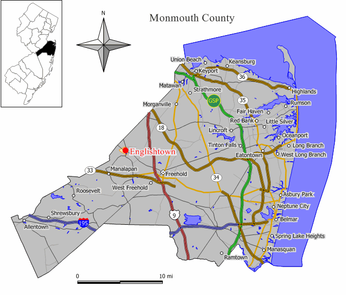 Source: Jim Irwin